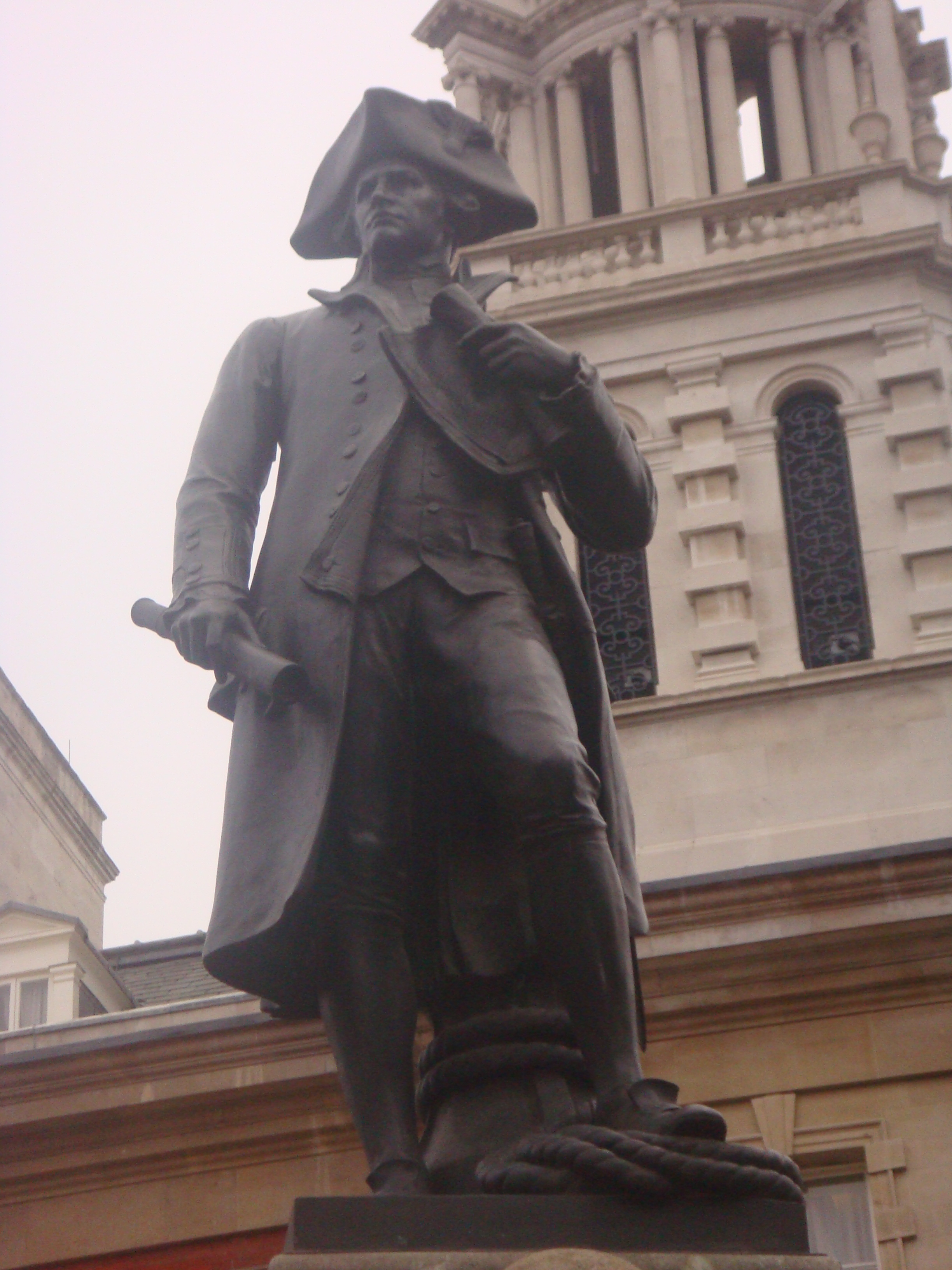 Statuette of Captain James Cook (1728- 1779) in London.